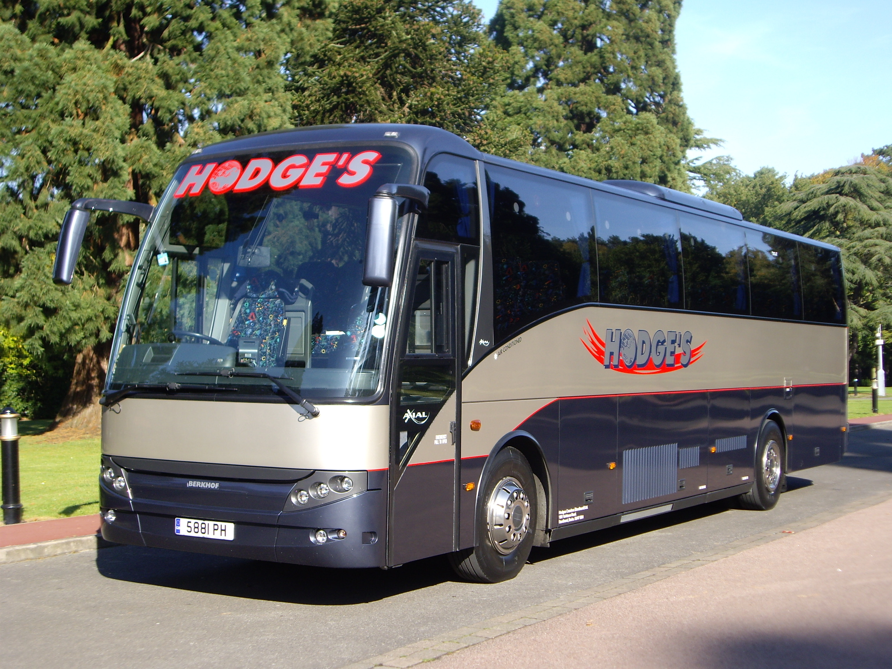 Hodge's Coaches Volvo B12M parked at Wellington College Crowthorne.